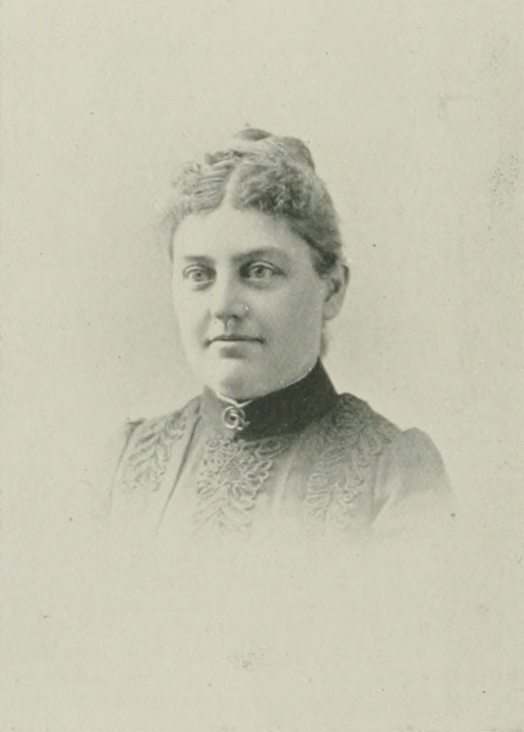 A woman of the century.djvu